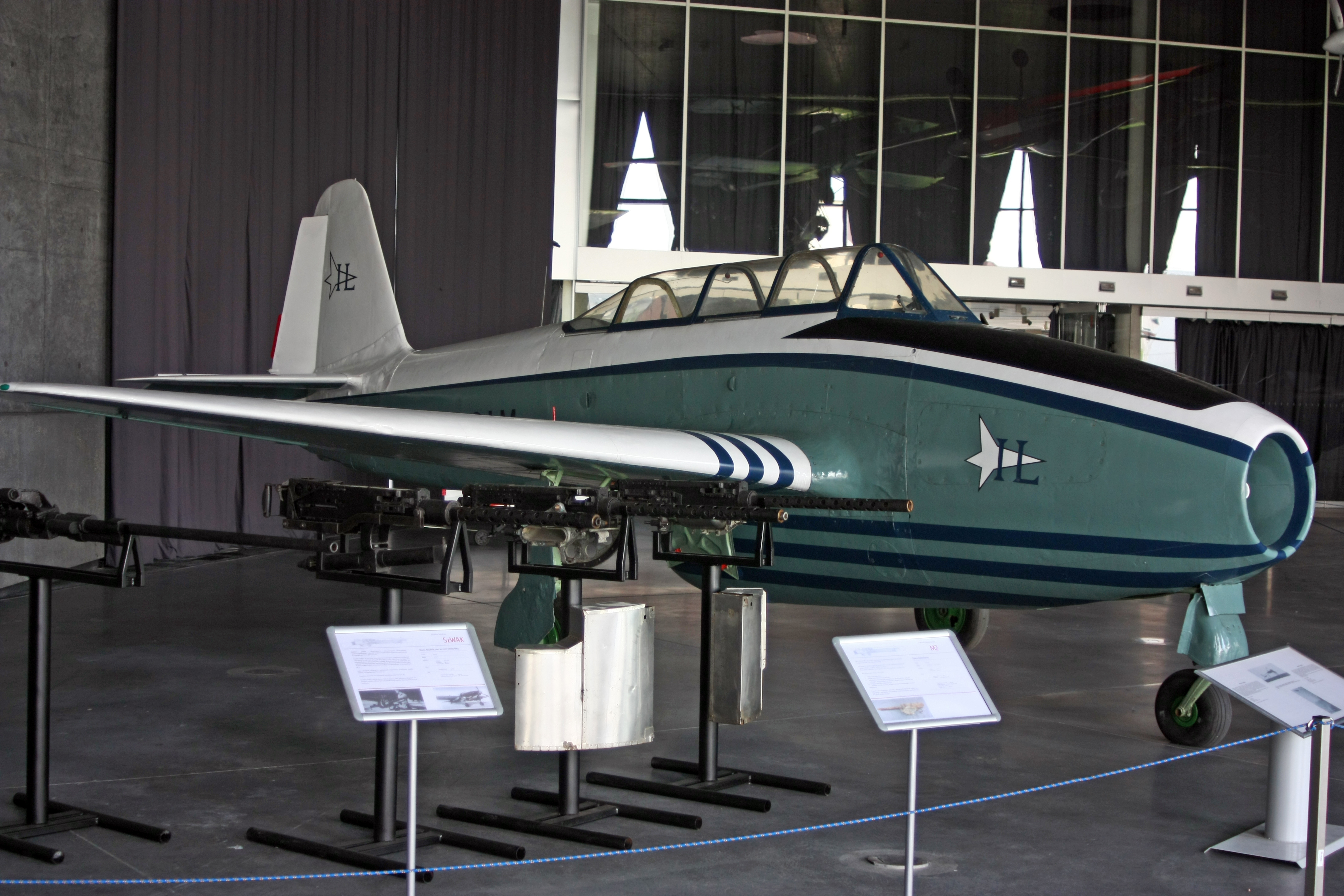 Jak-17W, SP-GLM, from the collection of the Aviation Museum in Krakow